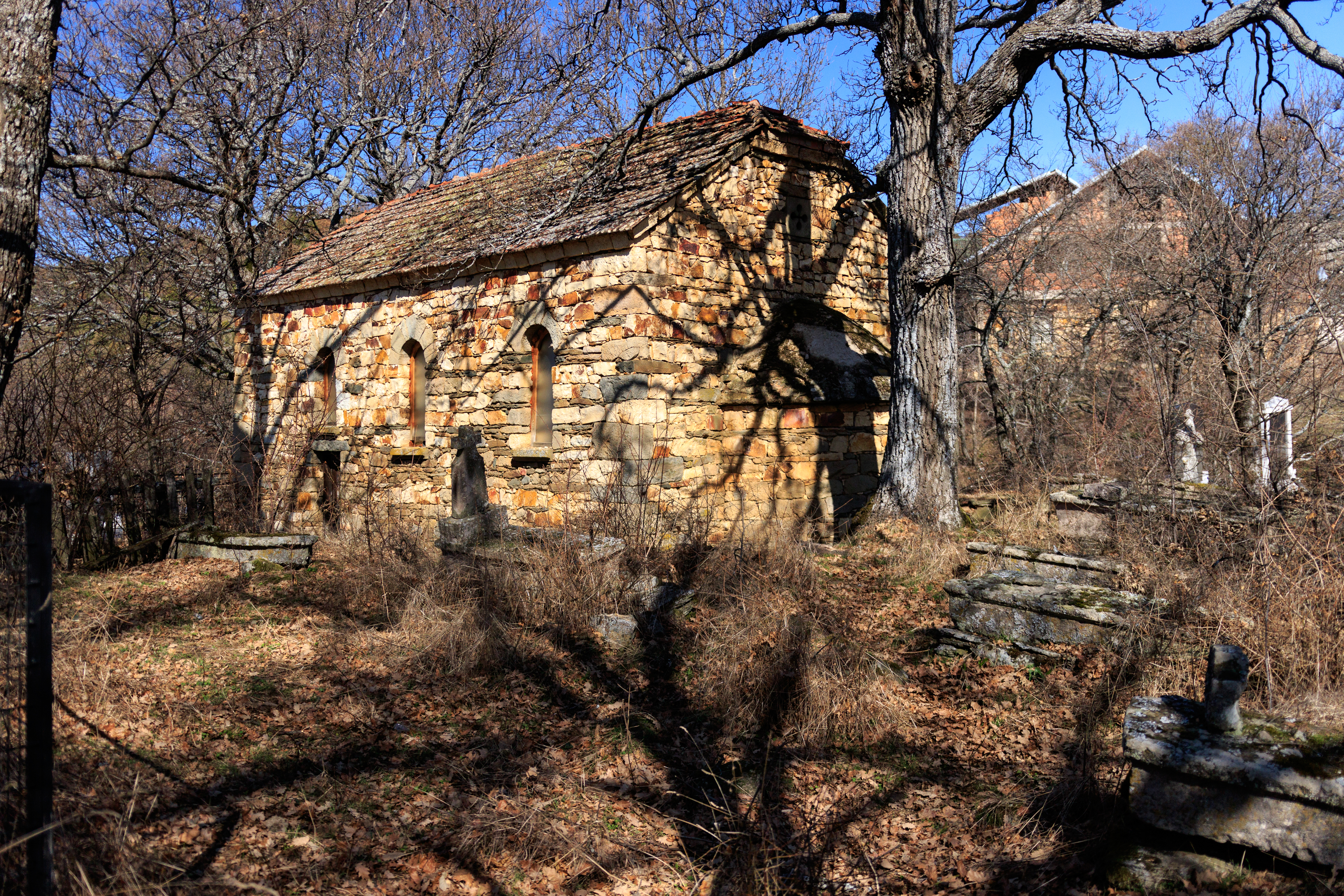 Exterior look of the Church of the Ascension of Jesus - Arbanaško